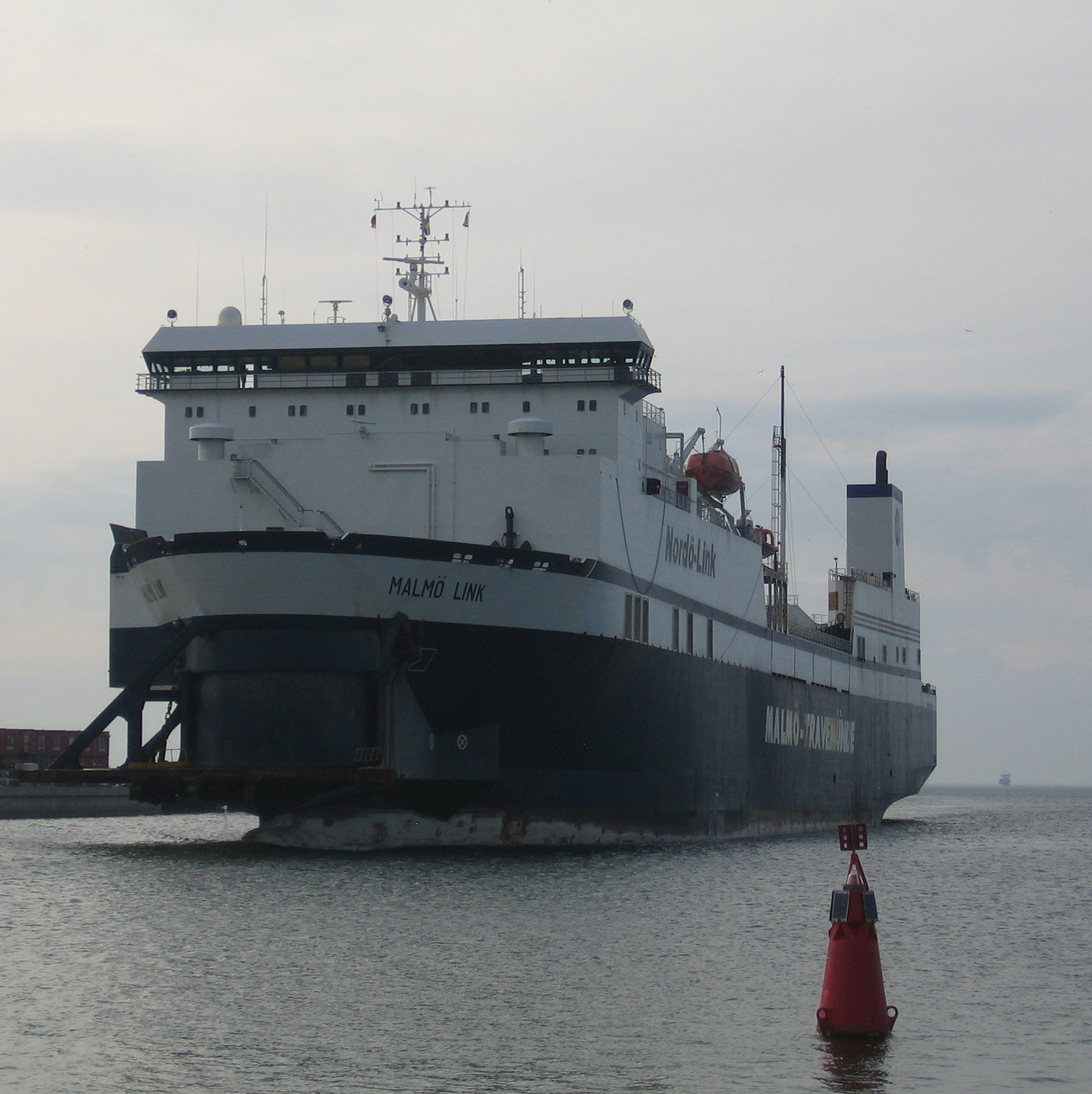 M/S Malmö Link, ship owned by Nordö Link IMO Number: 7822861 MMSI Number: Callsign: SICE Length: 192.59 m Beam: 27.03 m